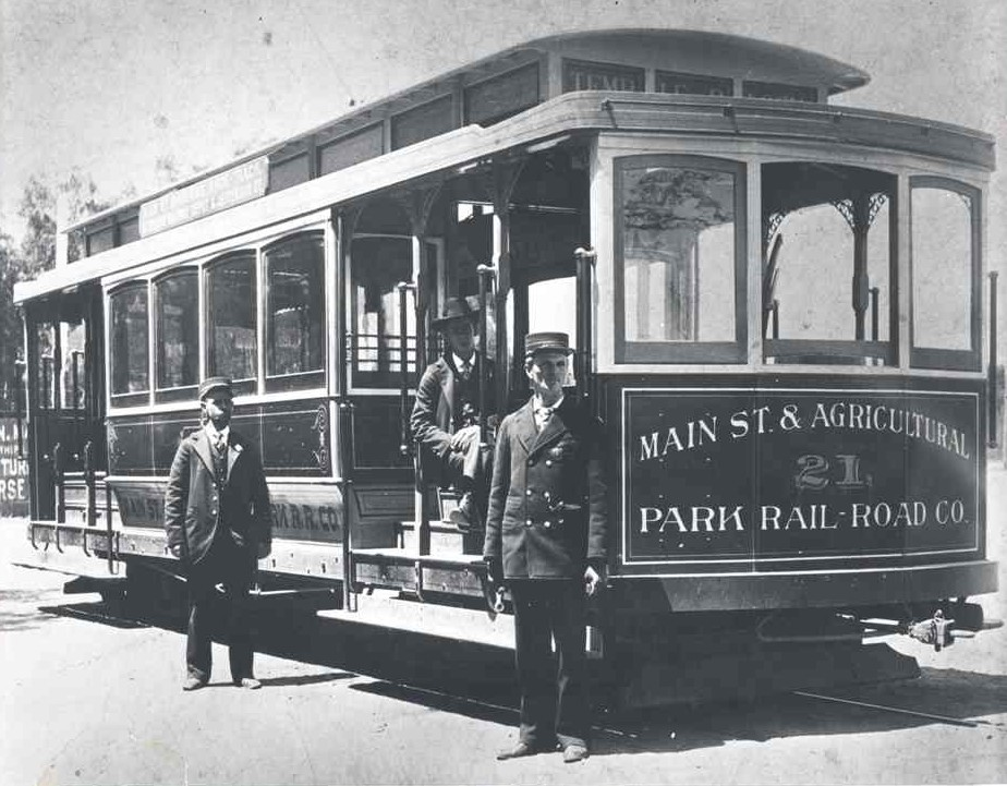 Main Street & Agricultural Park Railroad electric 23 poses at Agricultural Park when new (1896) It was one of 15 cars in tthe order, built by St. Louis Car Co. Agricultural Park later became Exposition Park.